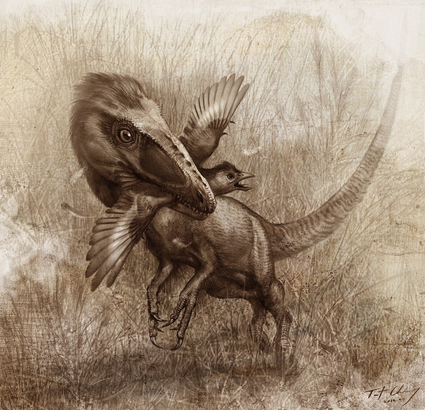 Sinocalliopteryx gigas as a stealth hunter feeding on the primitive bird Confuciusornis. Illustration by Cheung Chungtat.